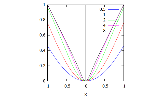 Smootmax applied on '-x' and x function with various coefficients.